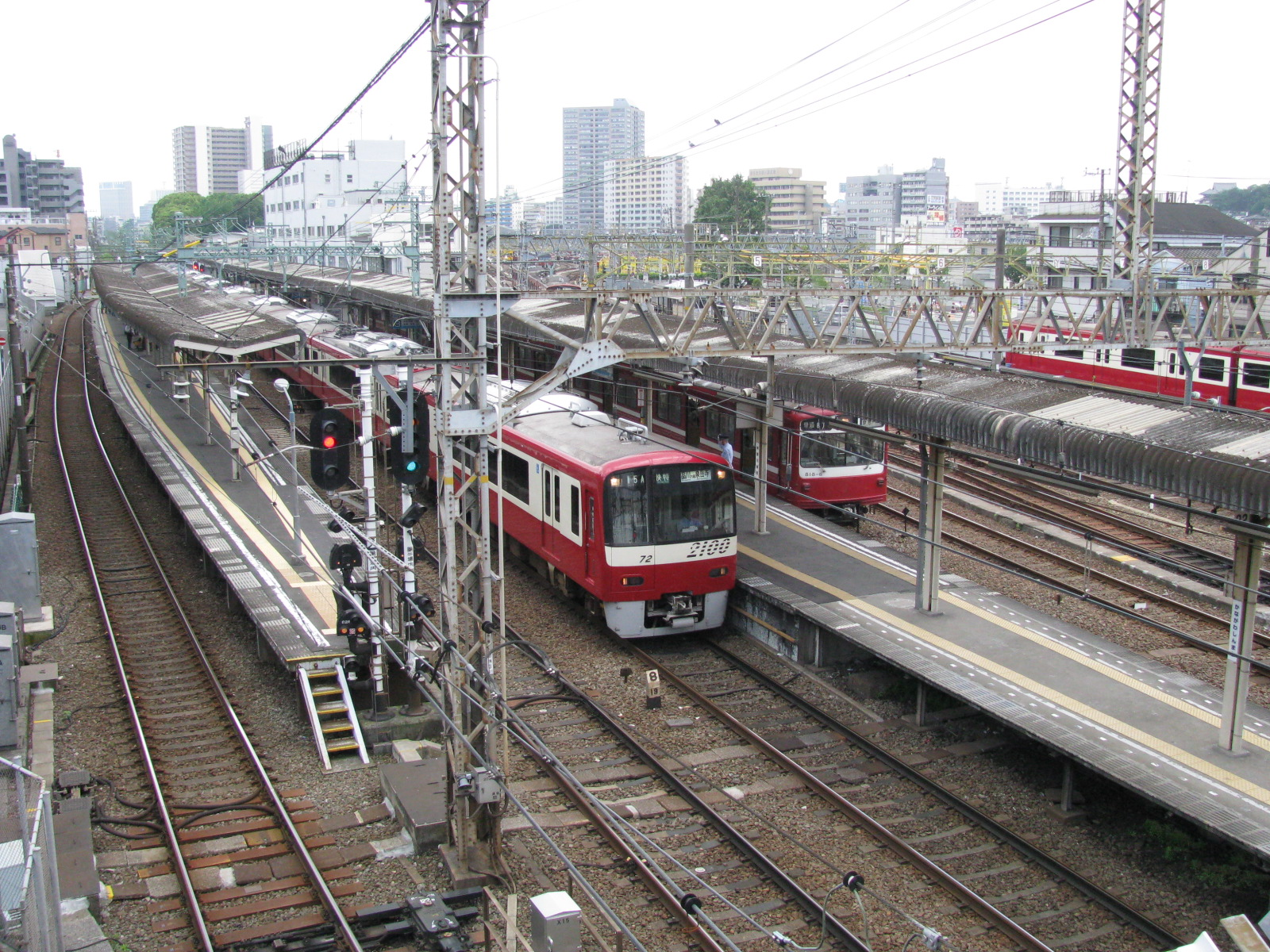 Kanagawa-Shinmachi Station is a railway station of the Keikyu Main Line, located in Kanagawa-ku, Yokohama, Japan.